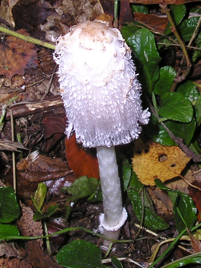 Coprinus comatus ("Shaggy Ink Cap" or "Lawyer's Wig") on a French roadside.